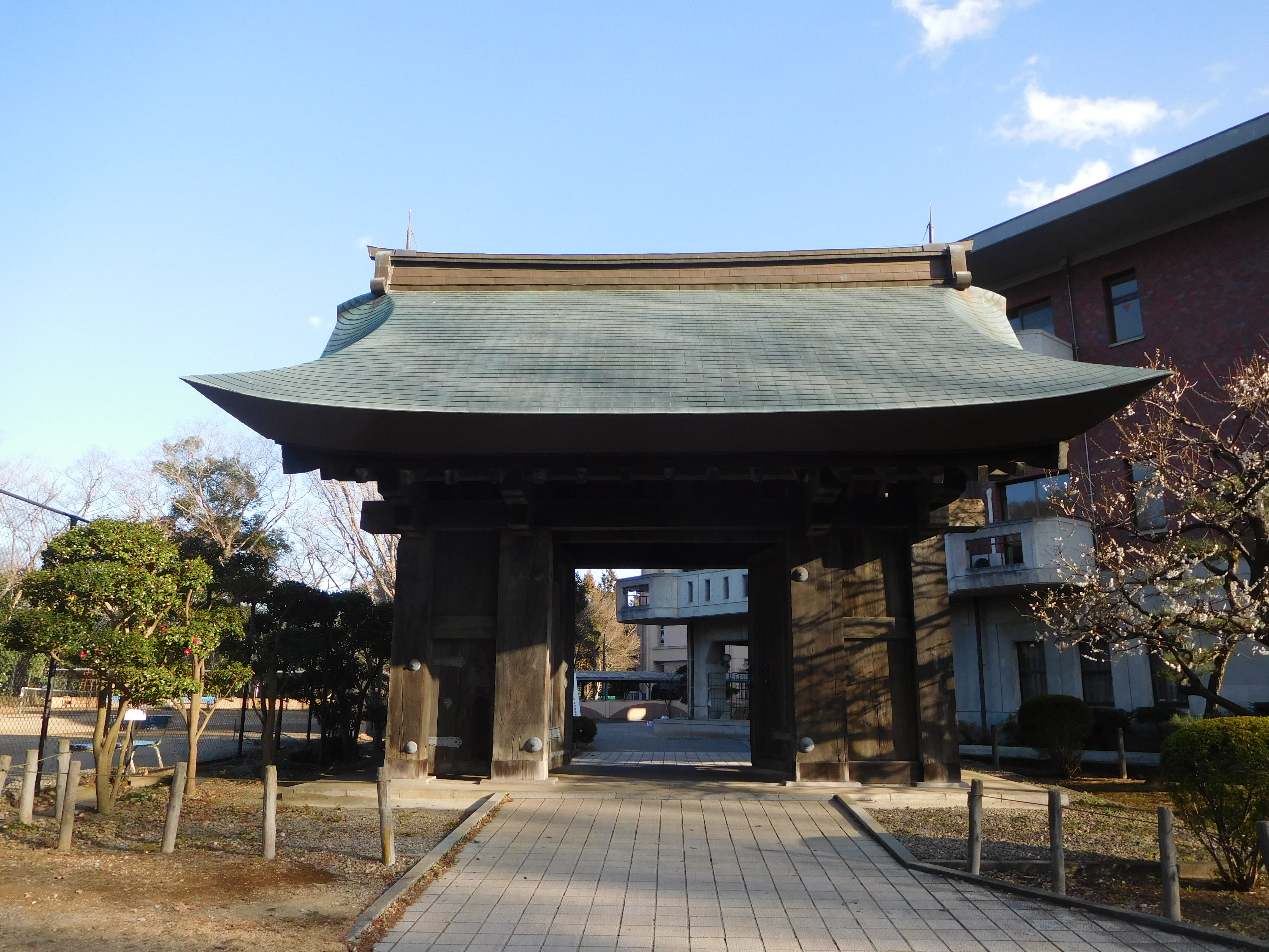 This is Yakui gate of Mito Castle in Mito, Ibaraki, Japan. It is located in Ibaraki prefectural Mito 1st high school.